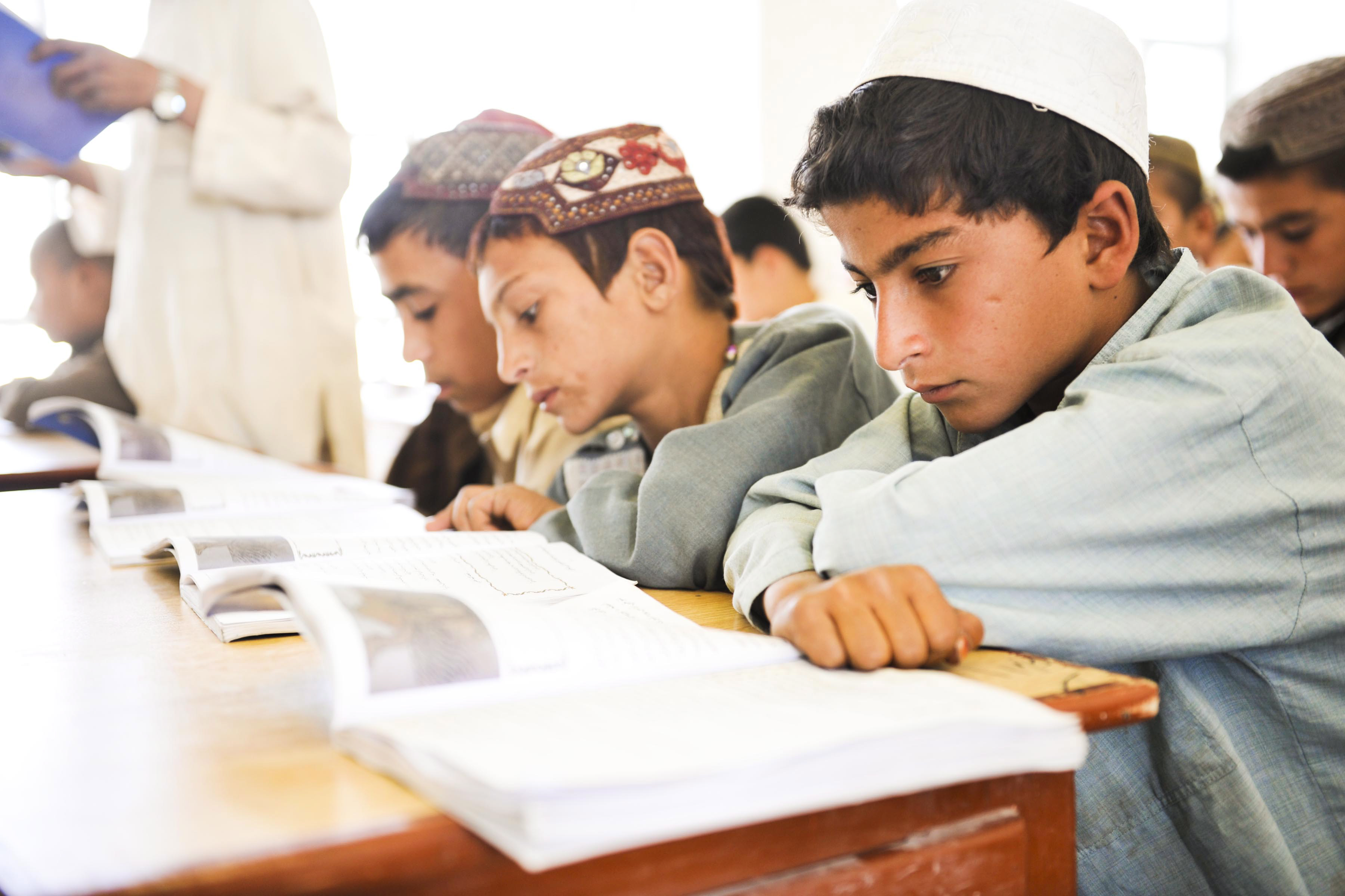 20.10.2010. Nad e Ali Central School. Student Sami Ullah (in focus far right) photographed during a lesson at Nad e Ali Central School in Helmand, Afghanistan. ACT Imagery taken in Nad e Ali, Helmand Province, Afghanistan.